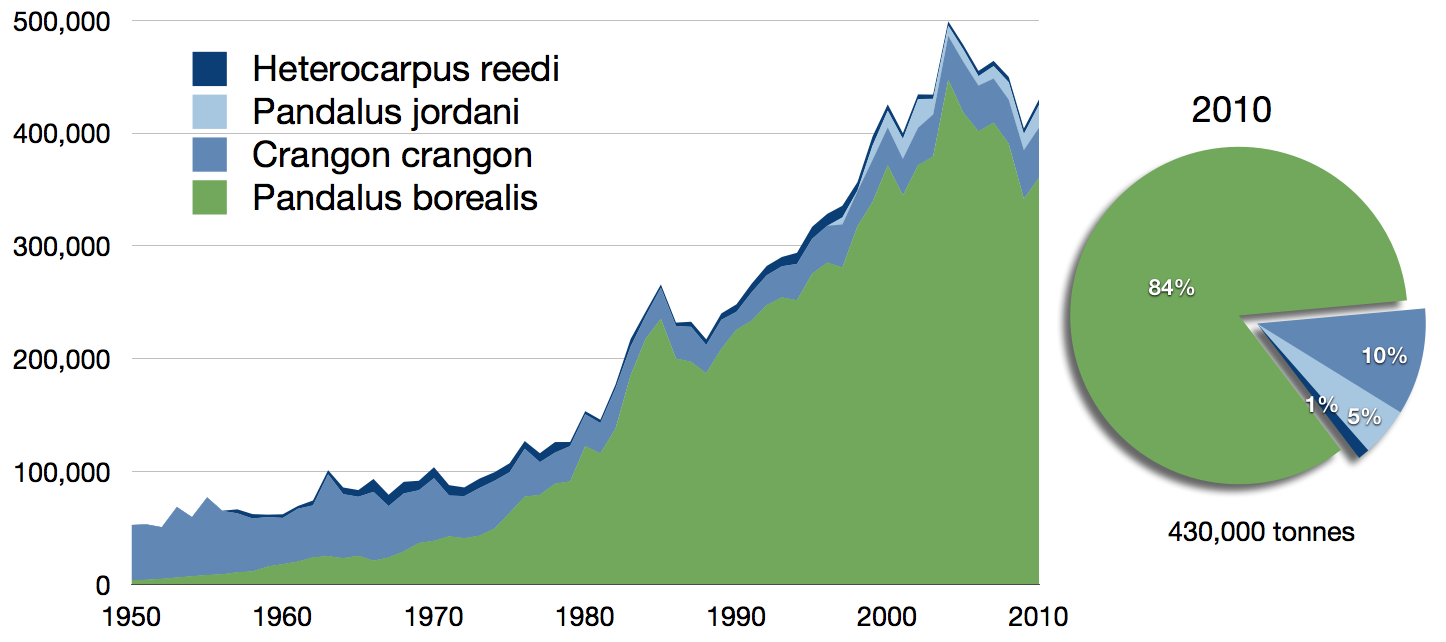 Fisheries recorded capture of wild caridean shrimp in tonnes from 1950 to 2010. Based on data sourced from the FishStat database, FAO.